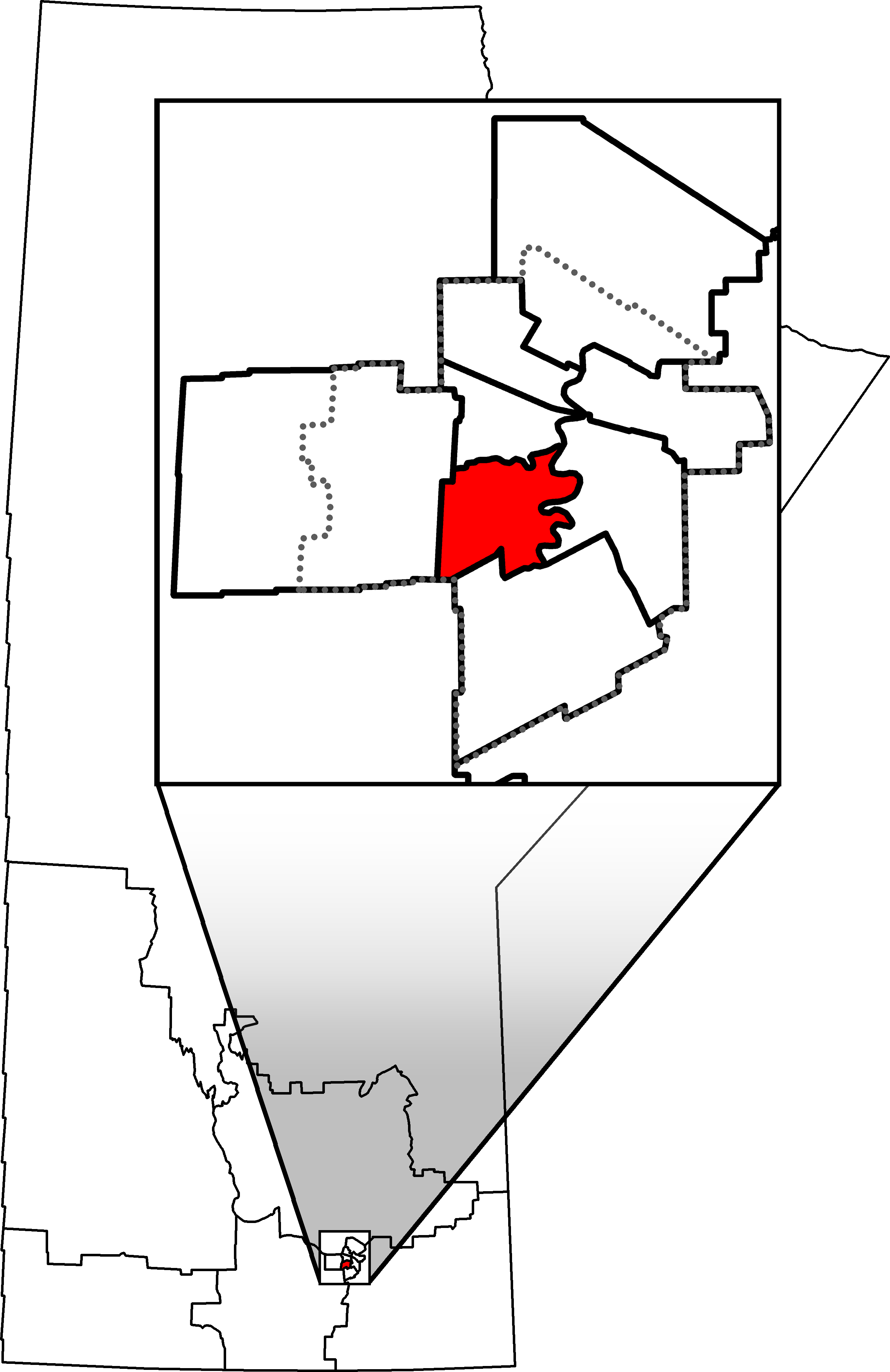 Federal Electoral District in Manitoba, Canada as of the 2013 Representation Order.